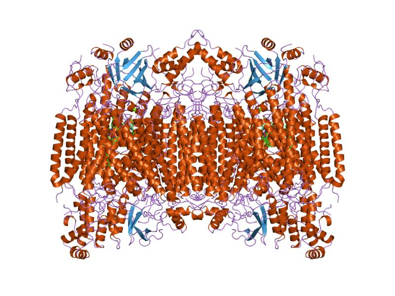 Cartoon representation of the molecular structure of protein registered with 1occ code.